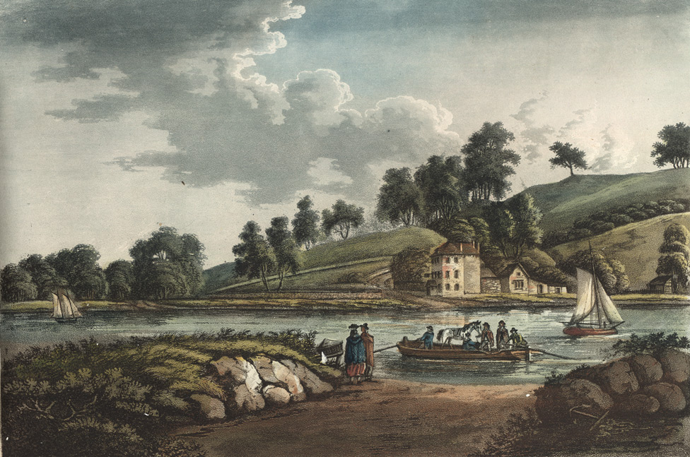 Rownham Passage on the River Avon between Somerset and Hotwells, Bristol. Artist and engraver : Hassell, John c.1797